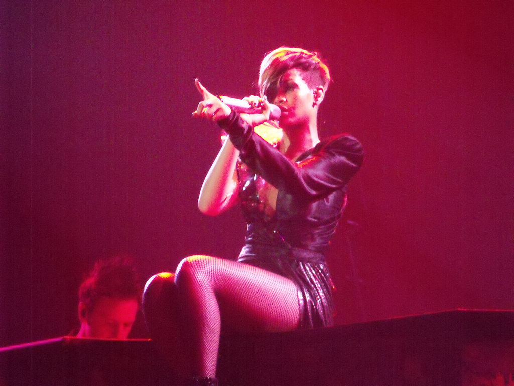 Rihanna in her Last Girl on Earth Tour